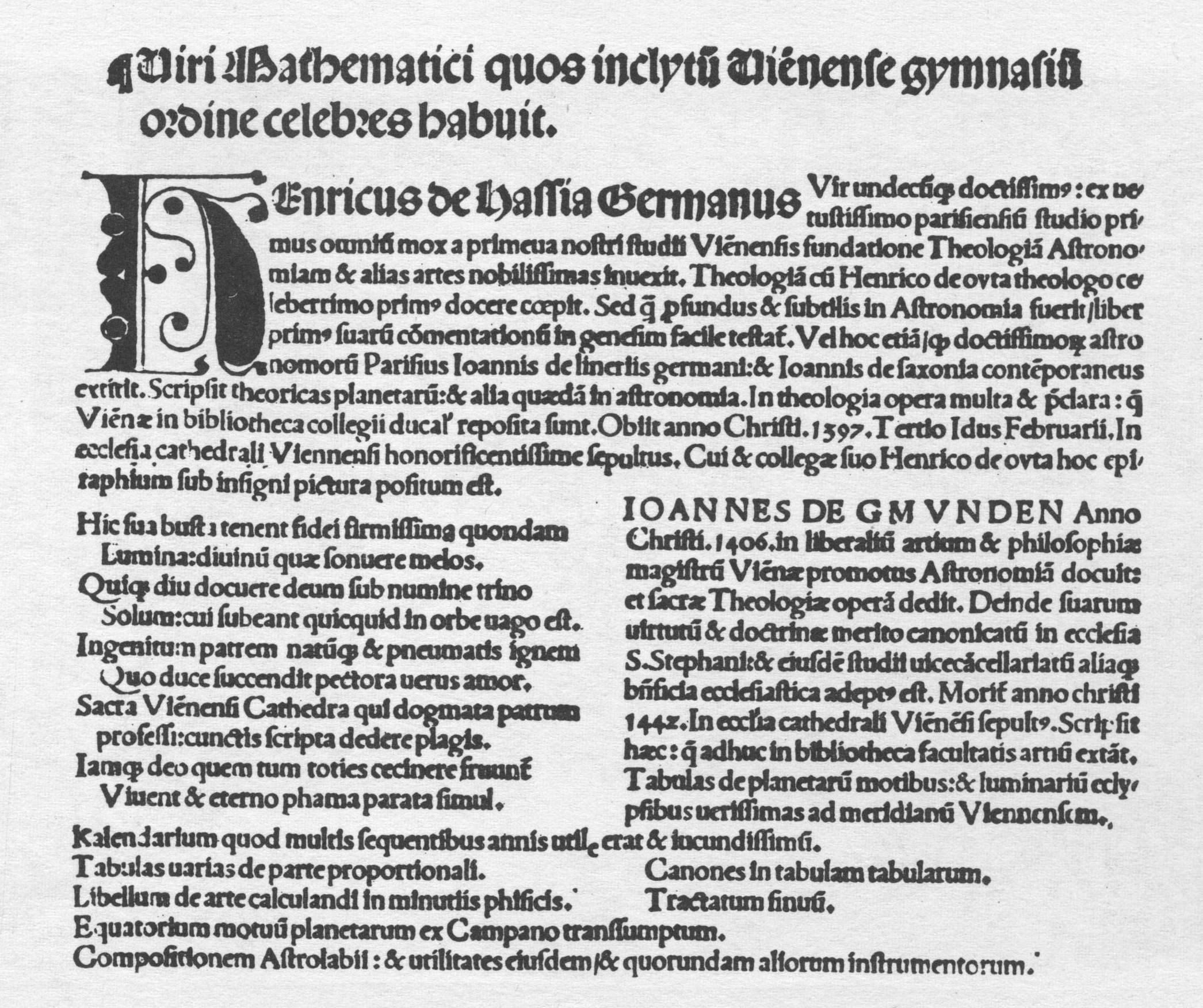 Upper half of the first page of Viri Mathematici from Georg Tannstetter's edition Tabulae eclypsium... containing astronomical tables of Georg von Peuerbach and of Regiomontanus.